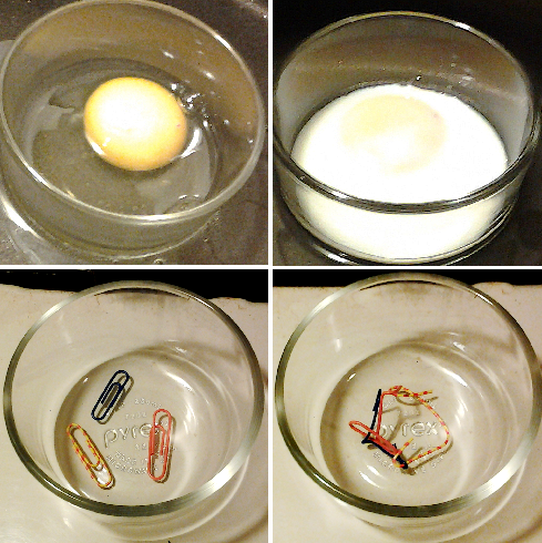 (Top) albumin in raw and cooked egg white; (Bottom) an analogy to help visualize the process.